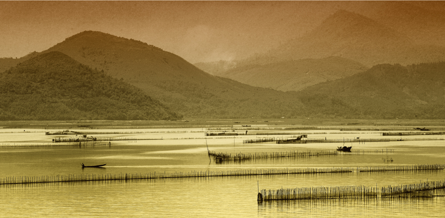 Tam Giang Lagoon.